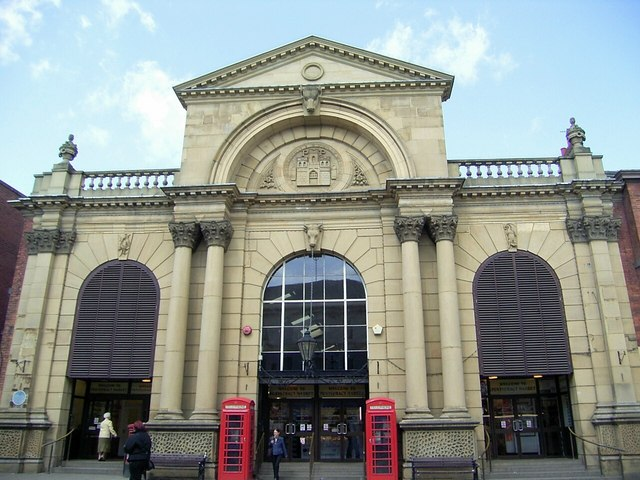 Market Hall Built in 1859 as a meat market and opened in 1860 by Lord Palmerston it was burnt down in the mid 1950s all except the facade and re-opened in 1957.